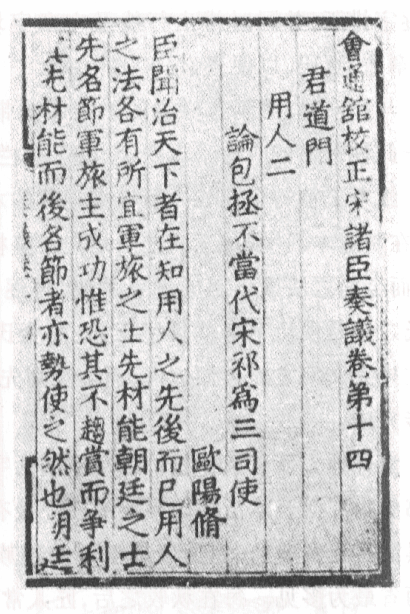 A page from a removable bronze type print book of 1490